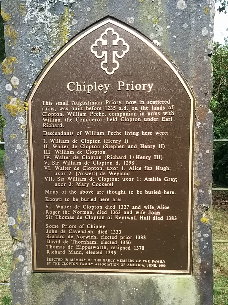 This is a photograph of a plaque on private land visible from the public bridleway at the site of Chipley Priory.